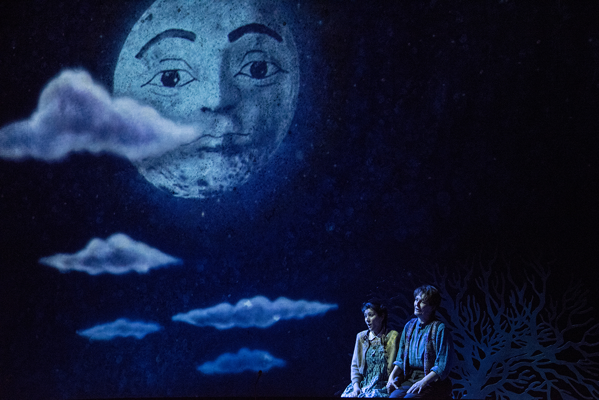 Hänsel und Gretel, Staatsoper Wien 2015